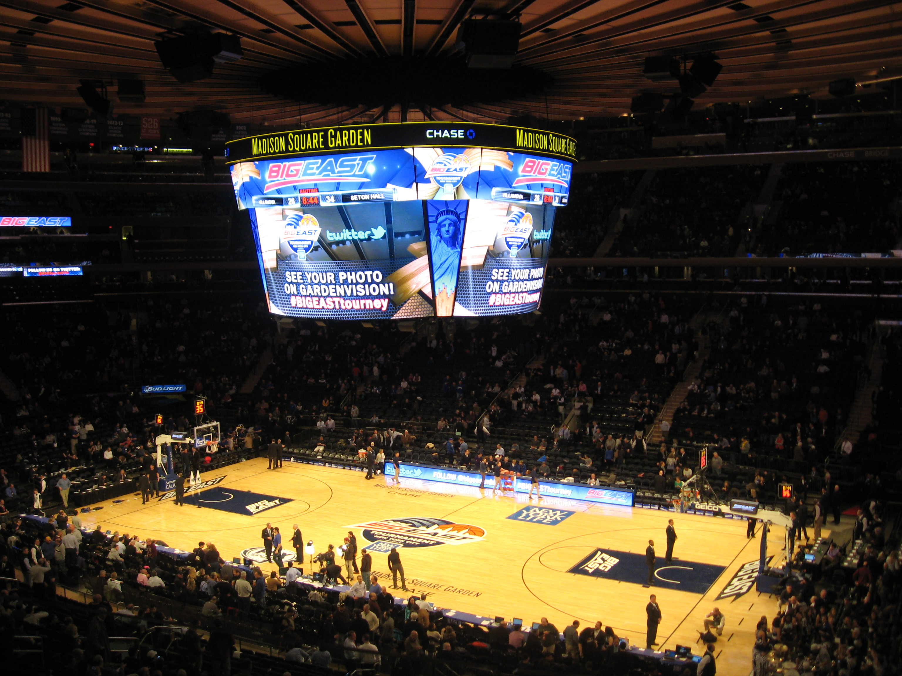 2014 Big East Tournament